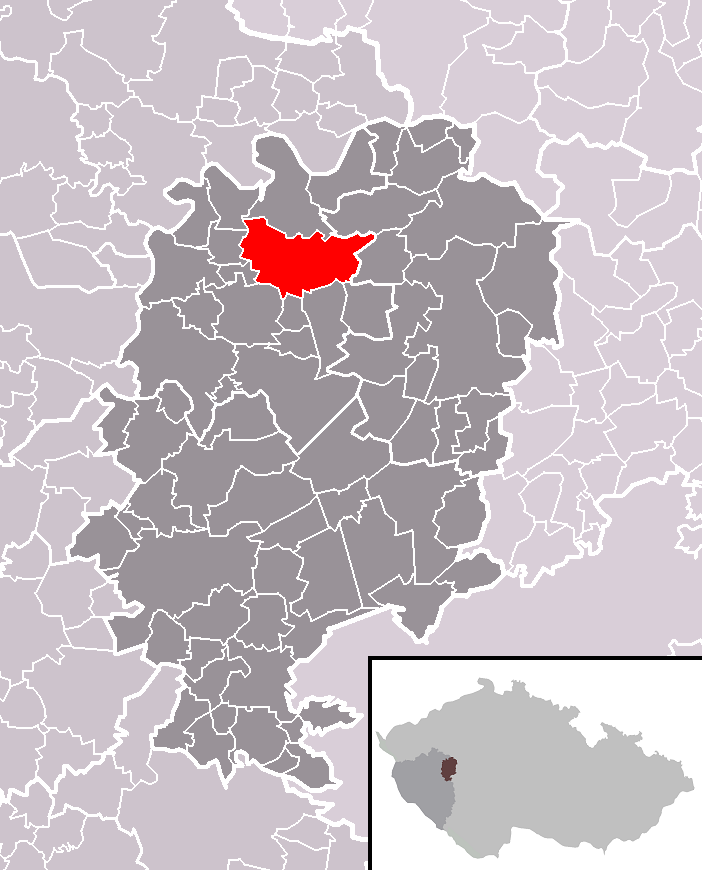 Location of Hlohovice municipality within Rokycany District and within identical administrative area of Rokycany as a Municipality with Extended Competence.